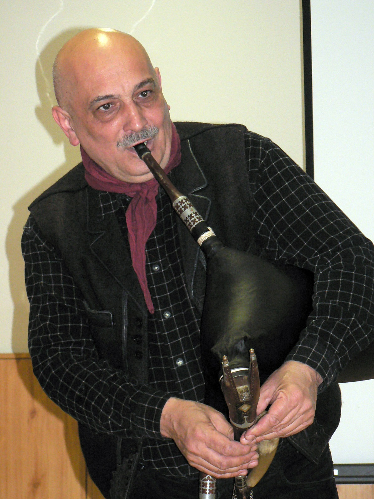 Ifjabb Csoóri Sándor 2010-ben Solymáron